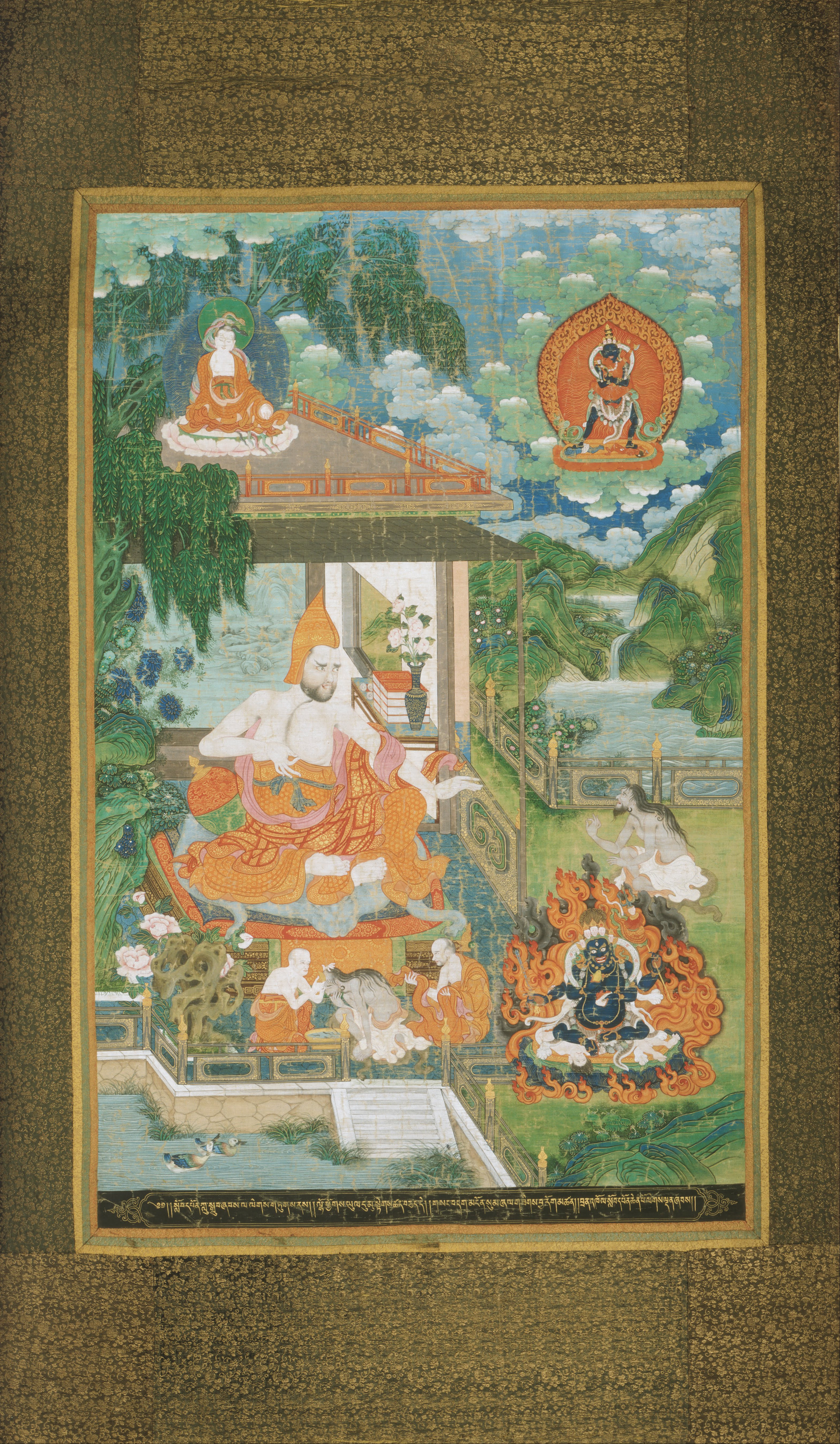 (copied from source, caption author unknown): Acharya Bhavaviveka, the founder of an influential school of Buddhist philosophy. He wears a peaked cap with golden rings that represent his mastery of different Buddhist teachings and reaches out his hand to a long-haired nonbeliever who is having his head shaved in preparation for becoming a Buddhist monk. On the roof sits Bhavaviveka's teacher, Nagarjuna, a famous Indian scholar identifiable by the snakes around his head. The fierce deities Vajrapani and Mahakala dance in flame-halos on the right. The inscription perfectly describes the action in the painting: "After studying under Nagarjuna, Bhavaviveka converted nonbelievers in the south, envisioned Vajrapani, and served Mahakala."